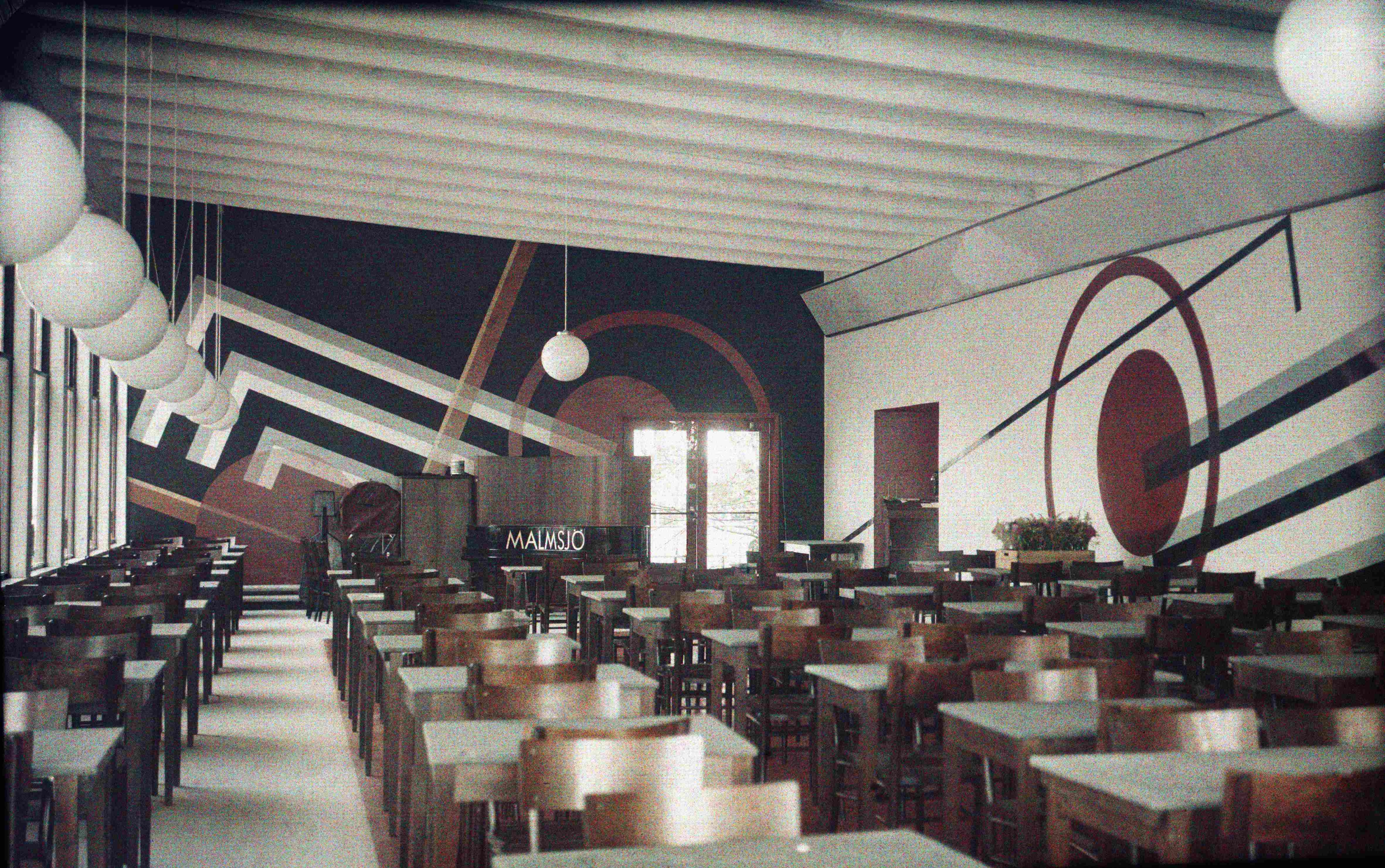 Mural painting "Rapid" by Otto G. Carlsund, at the restaurant Parkrestaurangen Lilla Paris, completed for the Stockholm Exhibition in 1930. Architect: Gunnar Asplund.